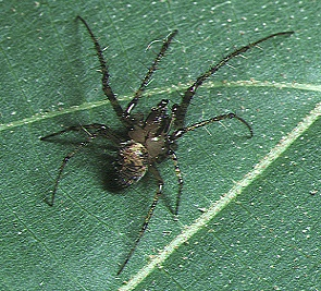 male Meta reticuloides from Okinawa.